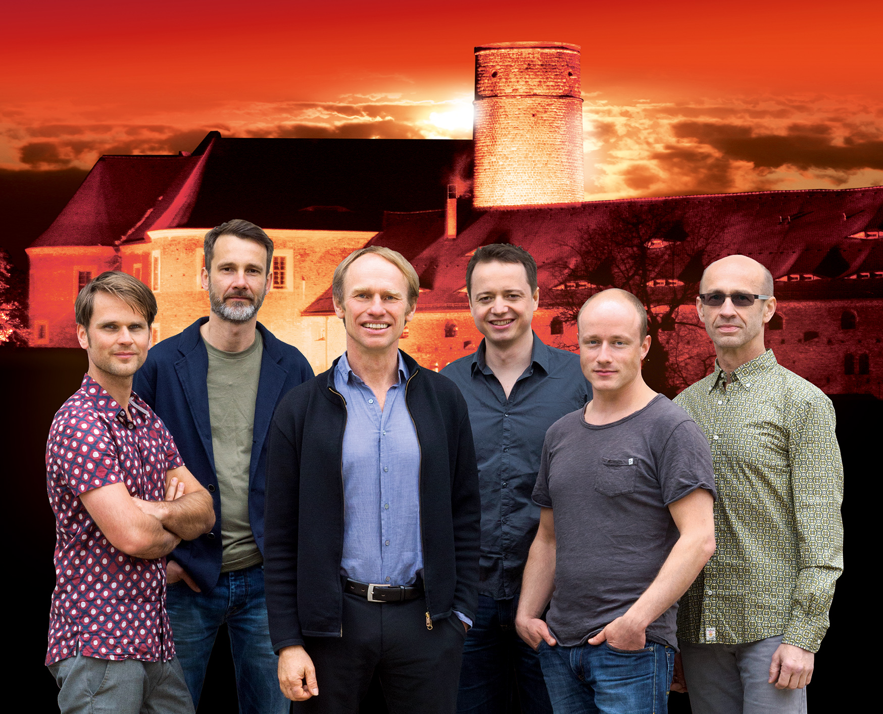 Keimzeit 2014 - Sebastian Piskorz, Andreas Sperling, Norbert Leisegang, Martin Weigel, Lin Dittmann, Hartmut Leisegang (left to right)